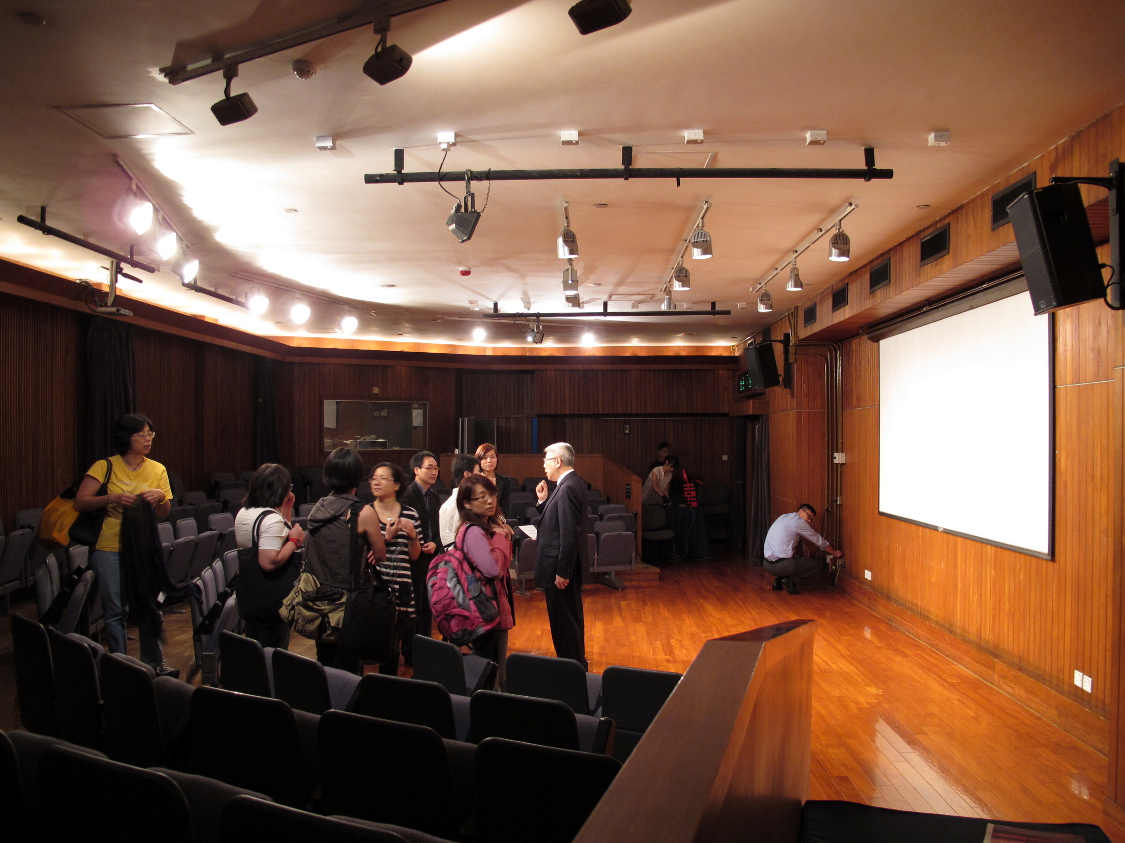 Hong Kong City Hall Theatre